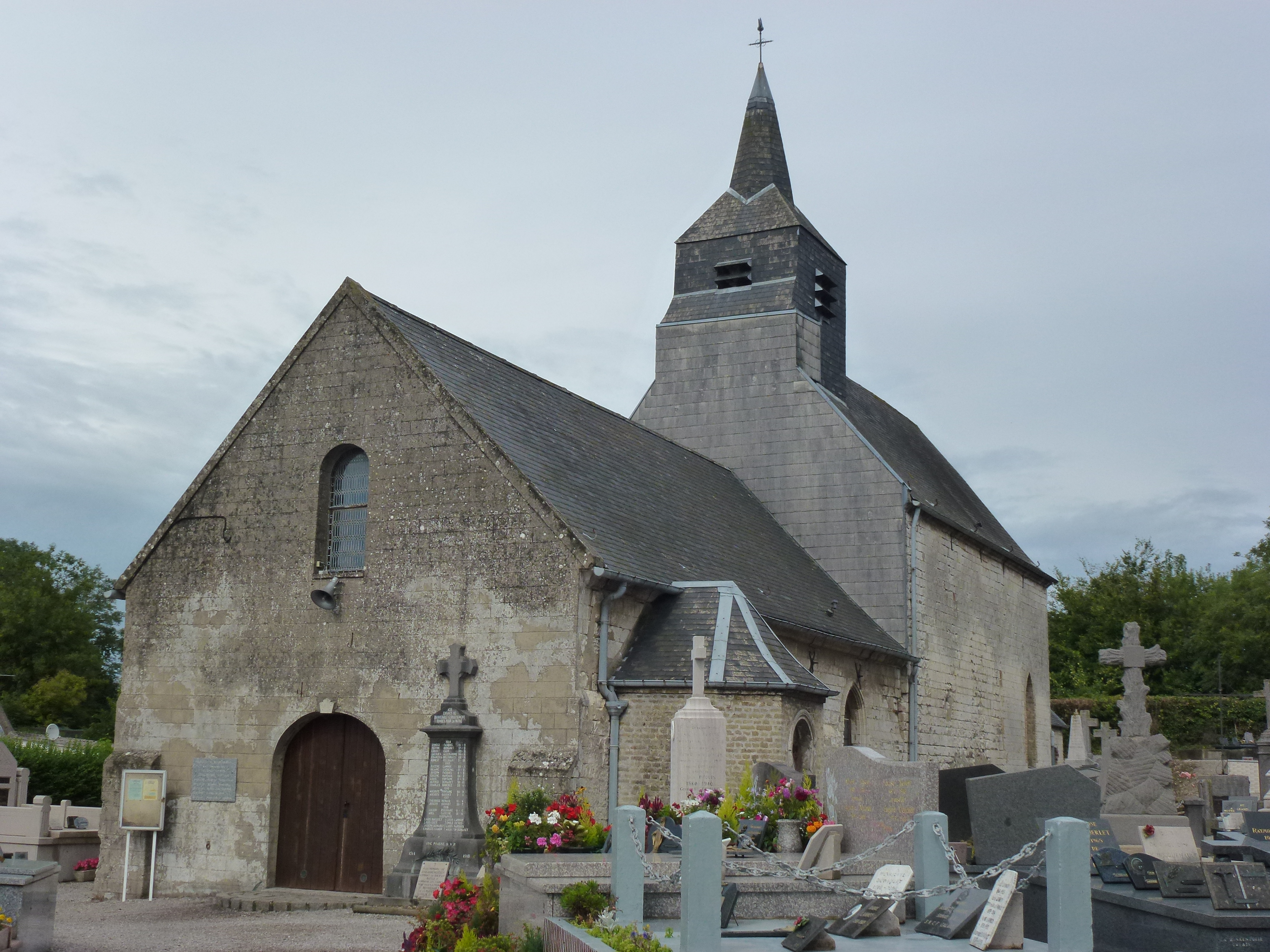 Bouquehault (Pas-de-Calais) église